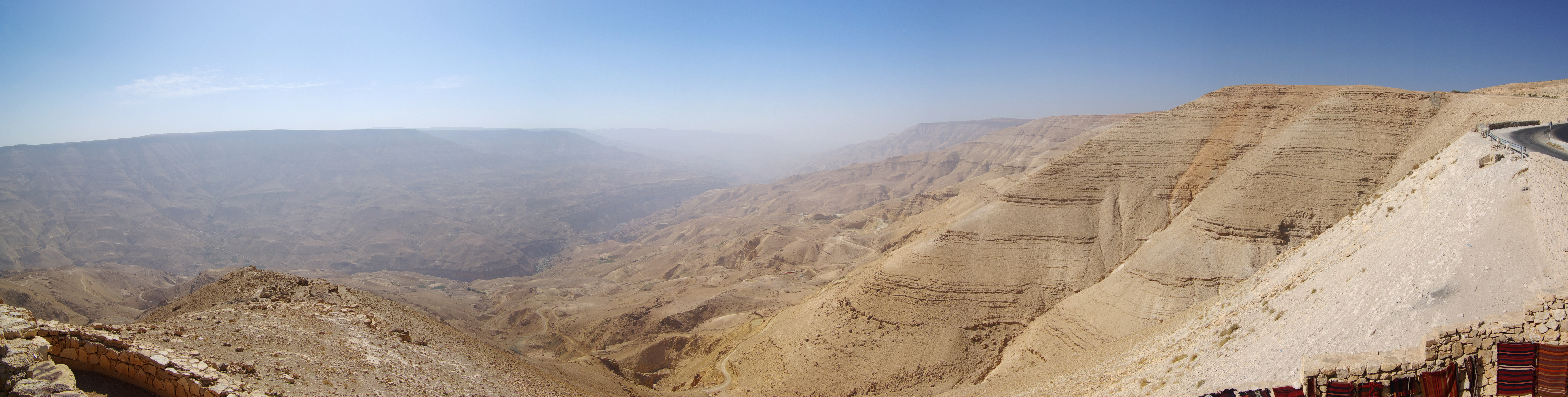 Wadi Mujib, View to southwest